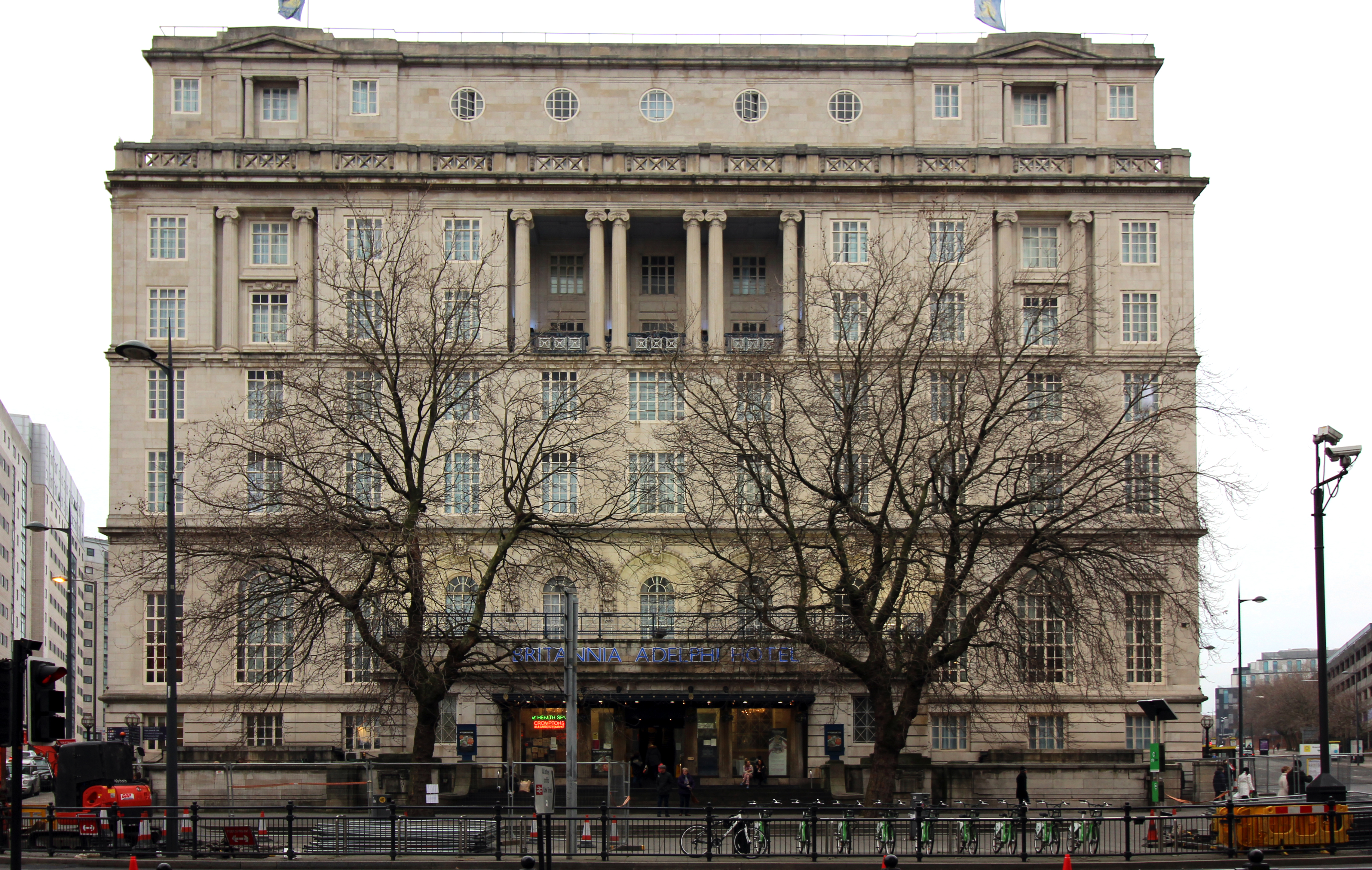 Viewed across Lime Street, front elevation of this Grade II listed hotel, the third hotel on this site and reputed to be one of the best hotels in Liverpool. This view is facilitated by lack of leaves, traffic and pedestrians. Copperas Hill is to the left and Brownlow Hill to the right.